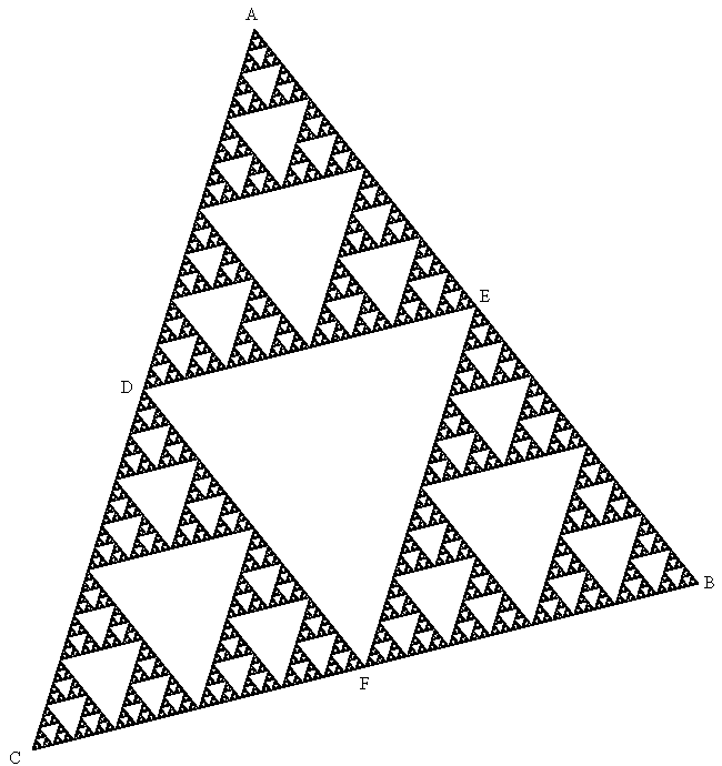 Made by Romero Schmidtke